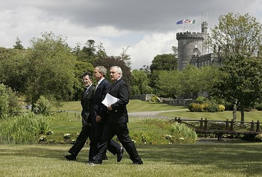 President George W. Bush walks with Prime Minister of Ireland Bertie Ahern, right, and President of the European Commission Romano Prodi on the way to their joint press conference at the Dromoland Castle in Shannon, Ireland, Saturday, June 26, 2004.